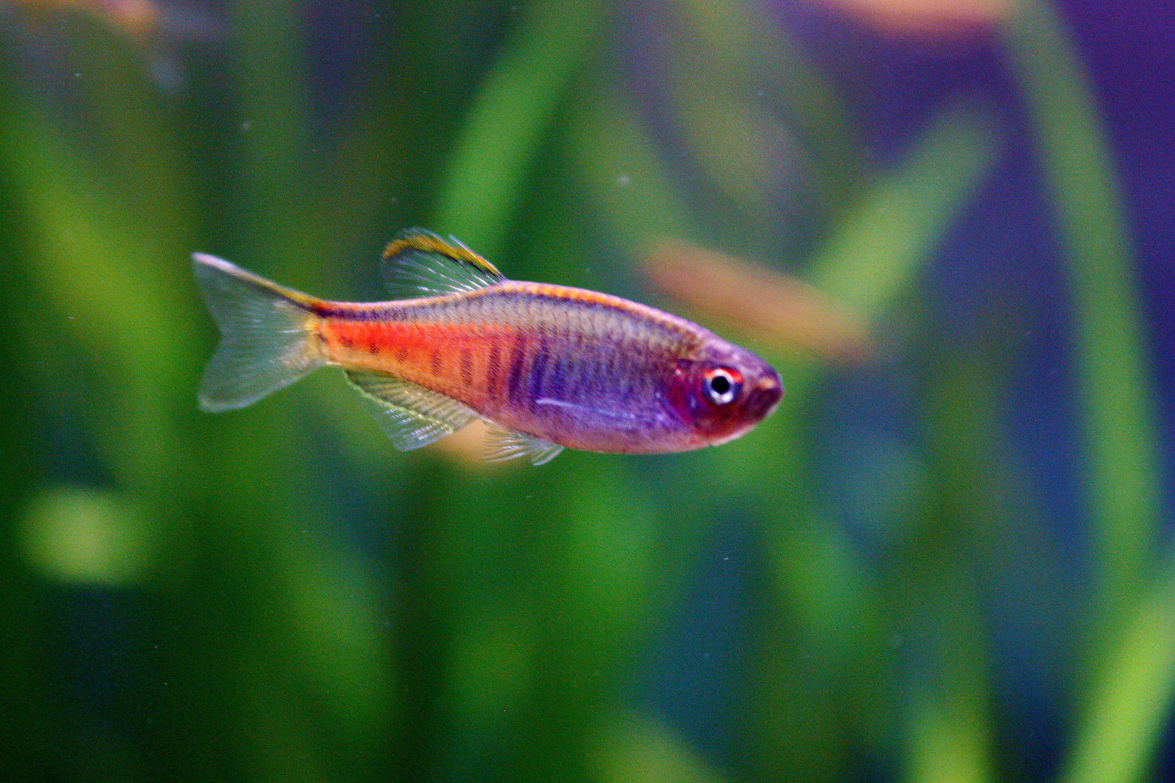 Danio choprae, with the vernacular names Danio Choprae, Danio Choprai and Glowlight Danio